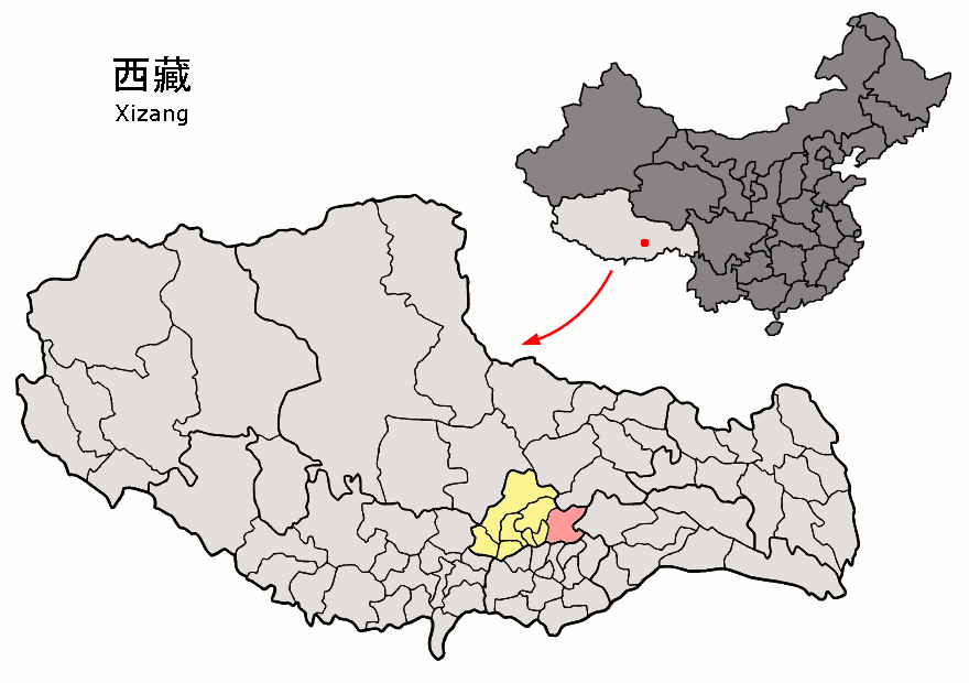 Location of Maizhokunggar County (pink) and Lhasa prefecture (yellow) within Tibet (Xizang) autonomous region of China